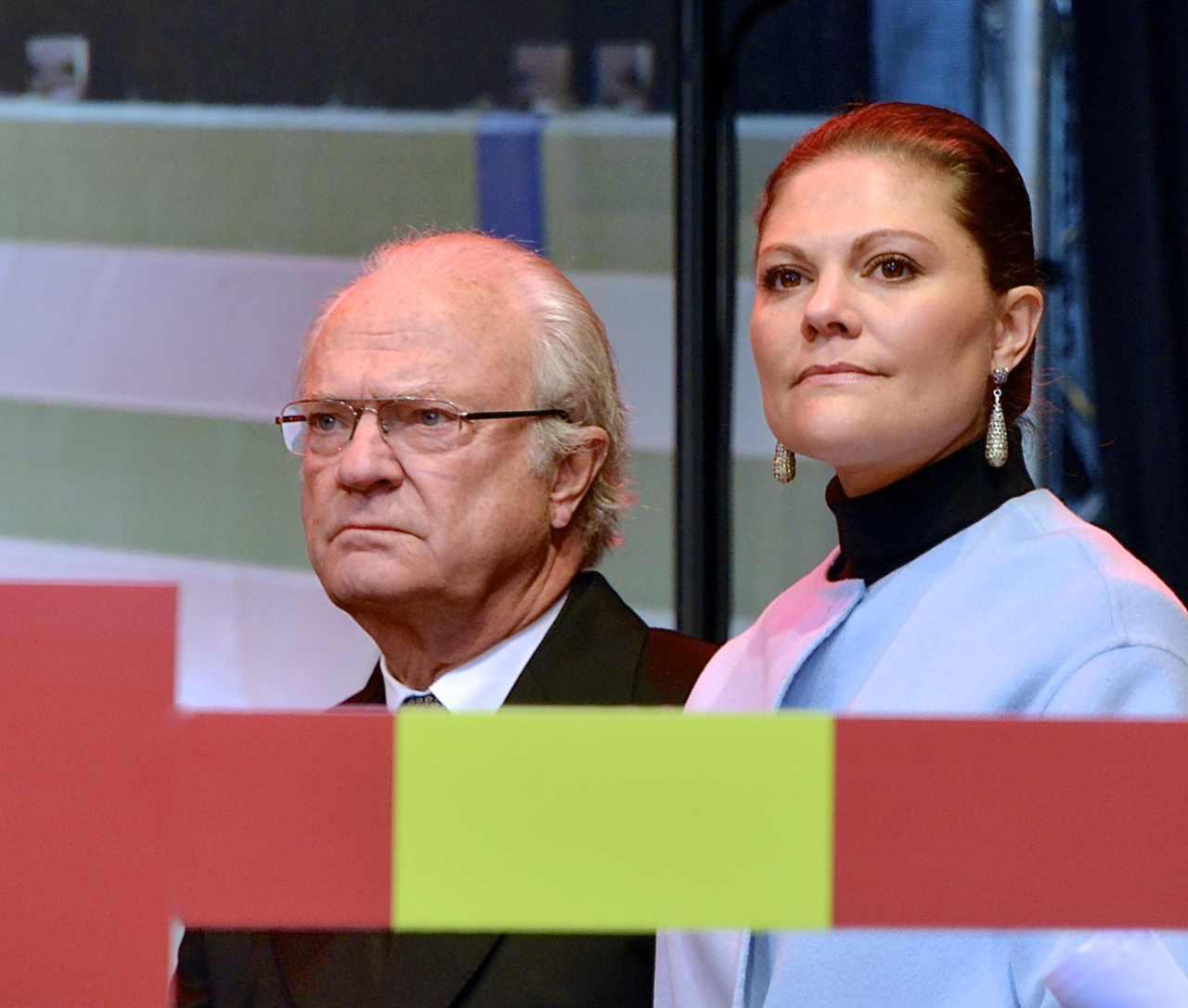 Crown Princess Victoria and Carl XVI Gustaf of Sweden during the inauguration of the Northern Link in Stockholm November 30, 2014.